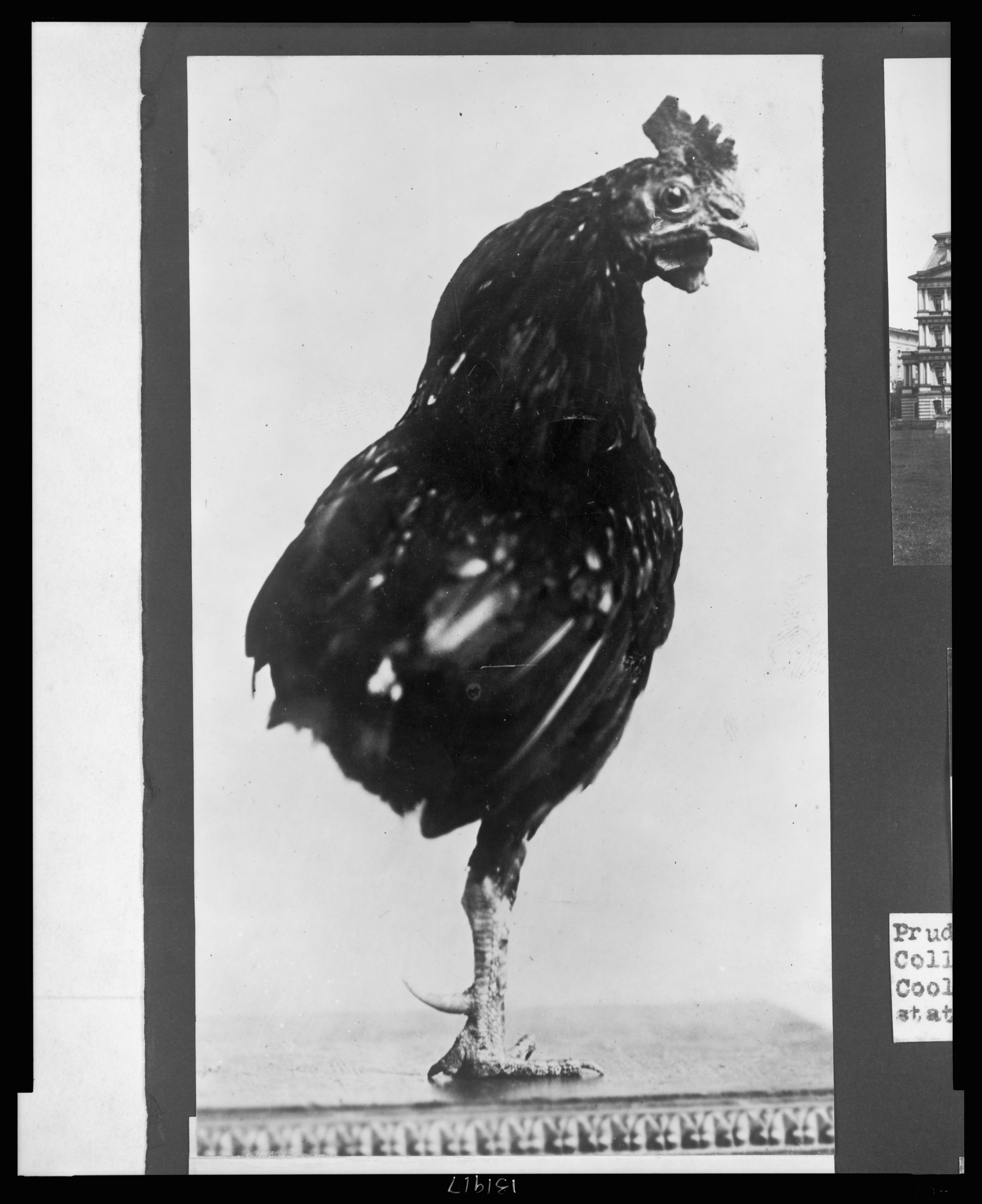 Title: One-legged rooster, pet of the Roosevelt children Abstract/medium: 1 photographic print.